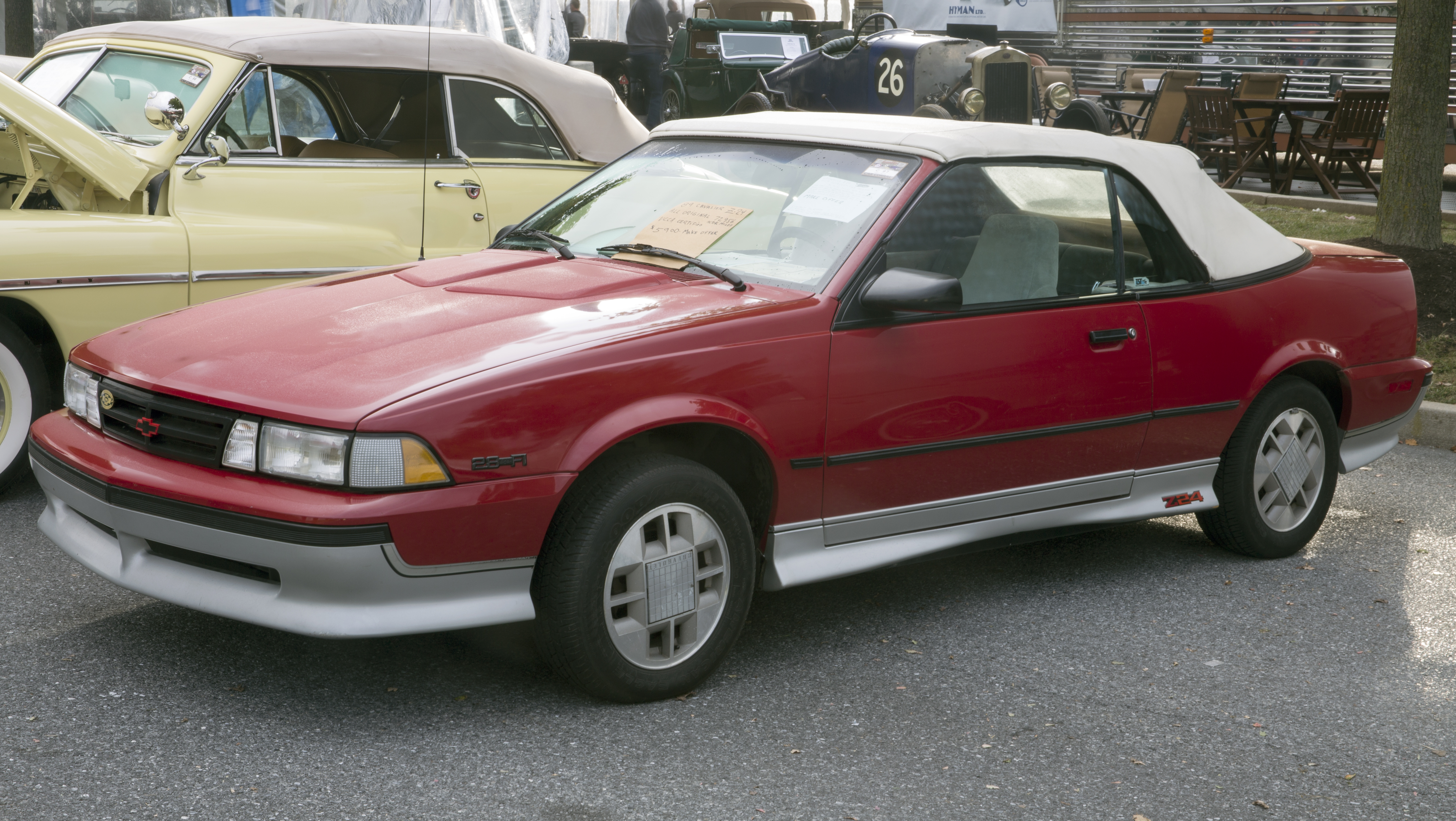 A 1989 Chevrolet Cavalier Z24 Convertible offered for sale at Hershey 2019. Dark Red with White top and Gray cloth interior (bucket seats), 2.8-liter V6, automatic transmission, 14-inch alloys, AC, fully equipped. Assembled in Lordstown, OH. The air induction hood is part of the Z24 package. This car would get you tons of admiration at Radwood, but at Hershey no one cared.